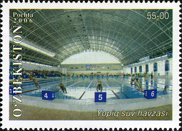 Stamps of Uzbekistan, 2006